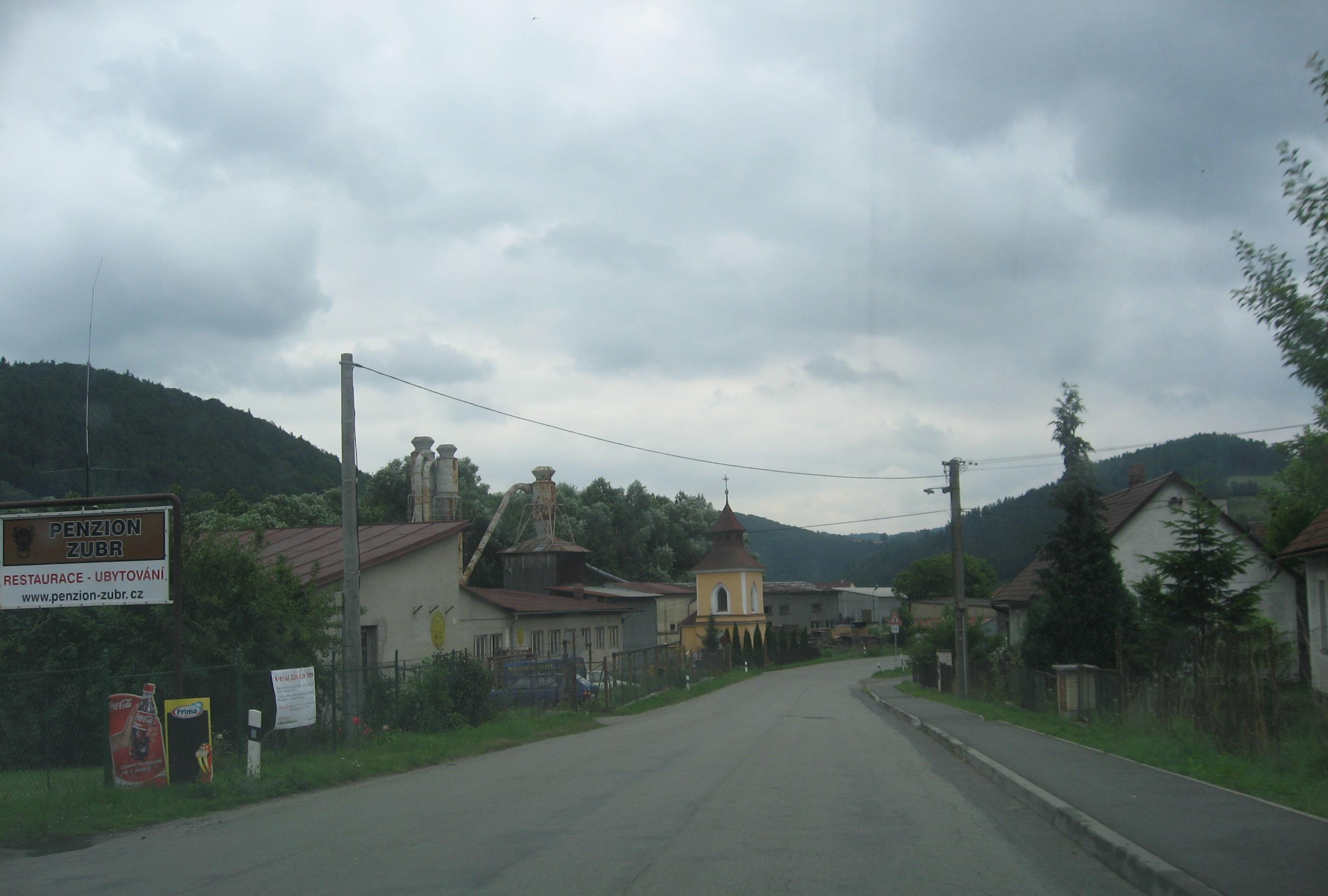 Ujčov, Žďár nad Sázavou District, Czechia.